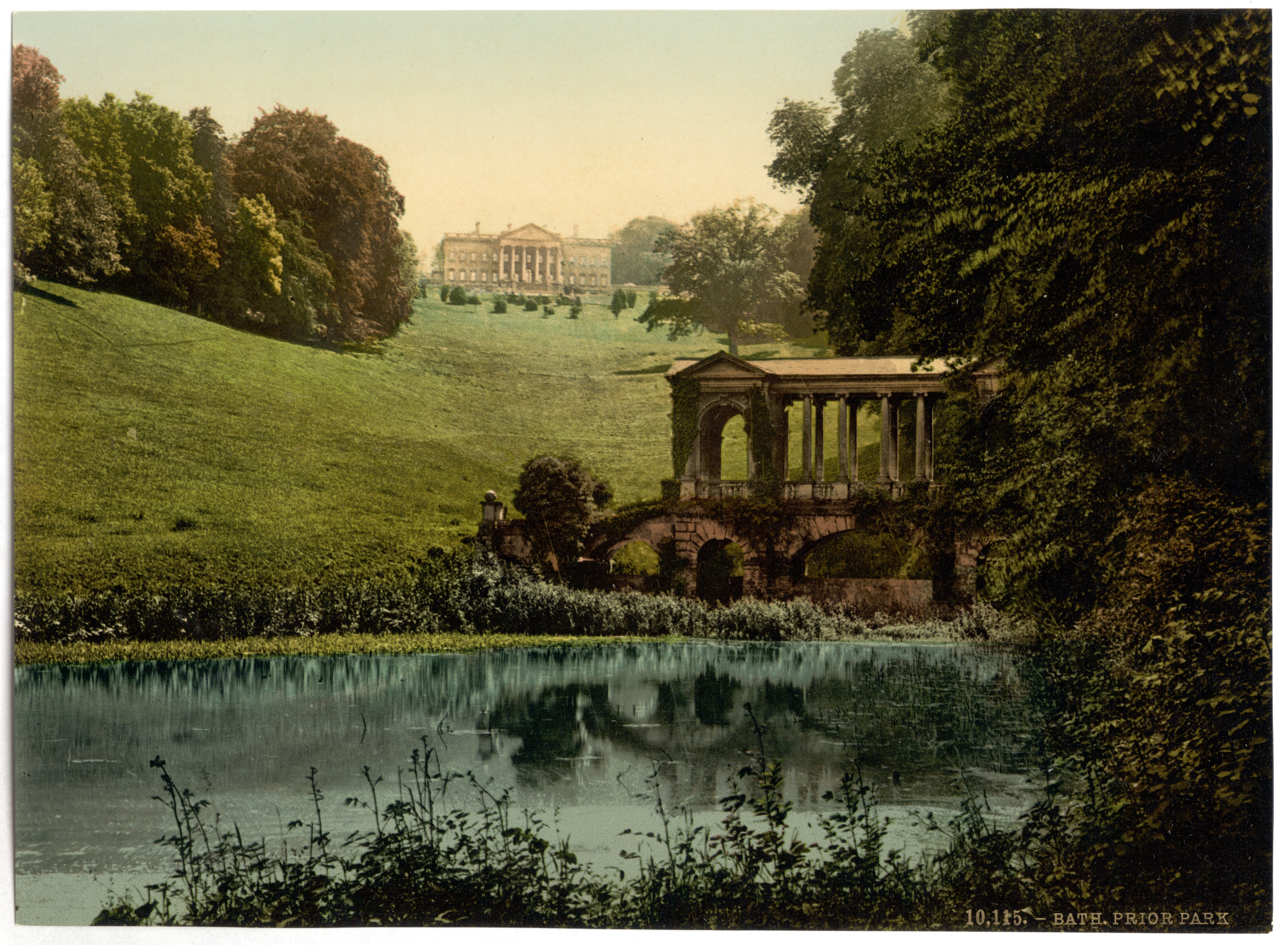 Photochrom of Prior Park.